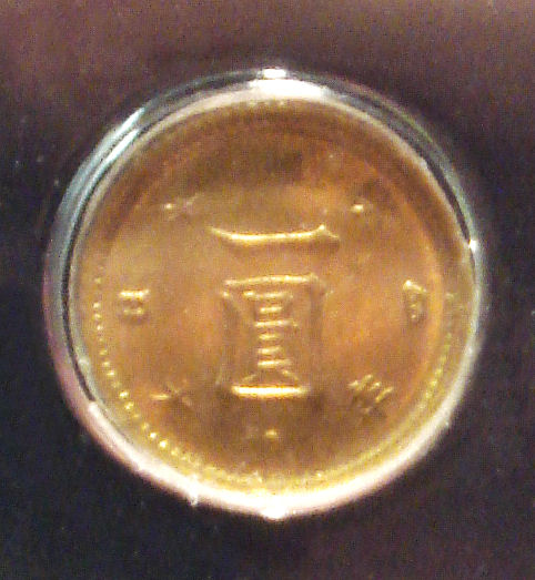 Early_one_yen_gold coin